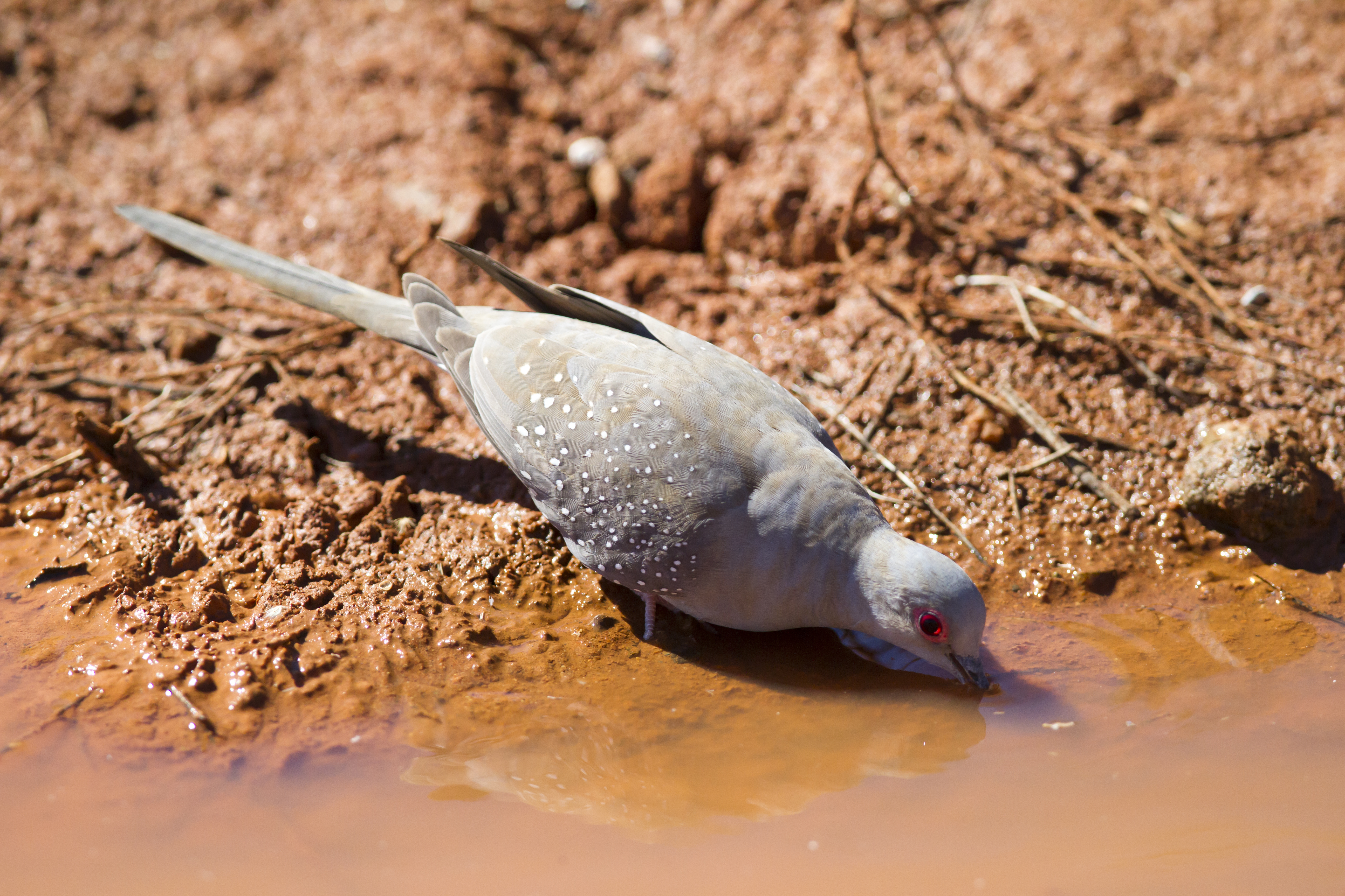 A Diamond Dove drinking near Karratha, Pilbara, Western Australia, Australia.